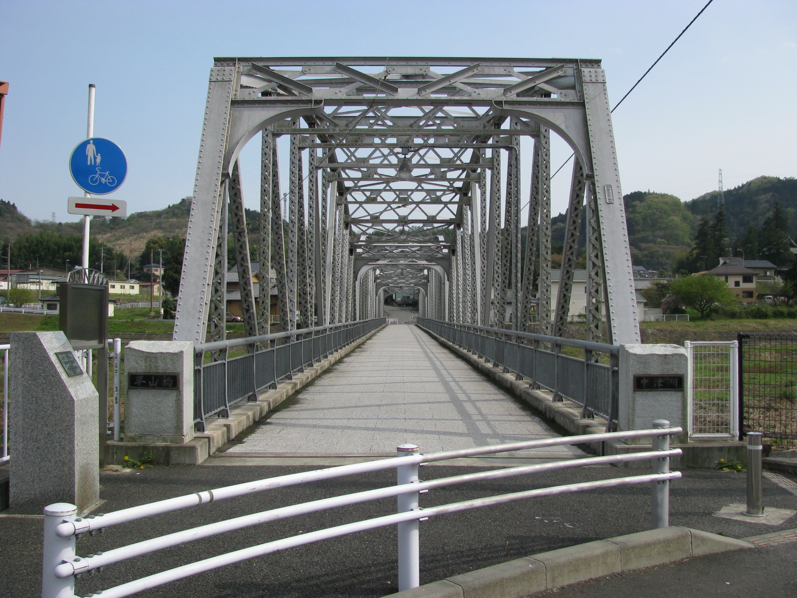 The Hirayama-bashi (Hirayama bridge). Hirayama-bashi is over the Nakatsu-gawa (Nakatsu river). This located in Aikawa, Aikō District, Kanagawa, Japan.